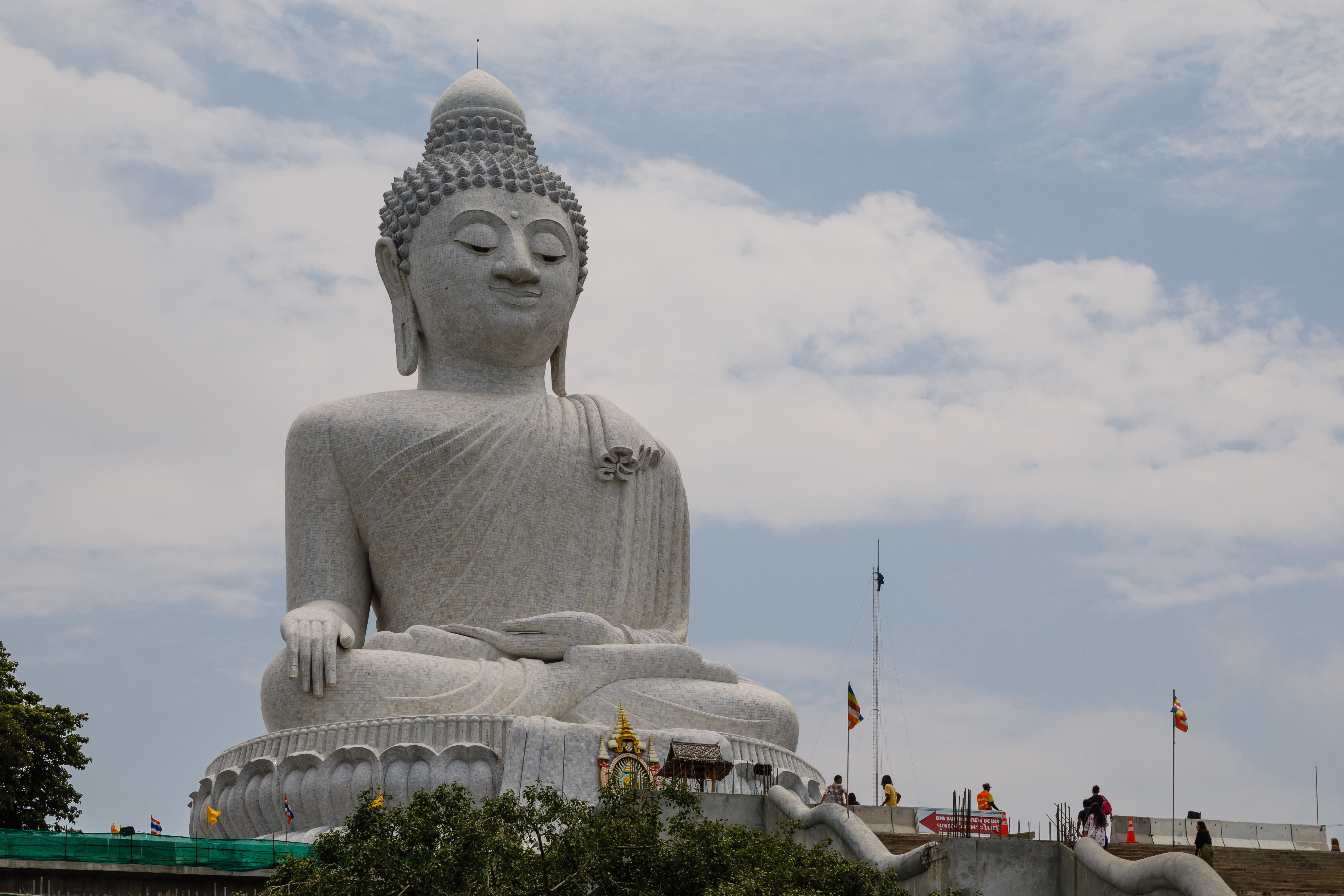 Phuket, Thailand: Prahputtamingmongkol Eaknakakeeree, also known as the big Buddha of Phuket